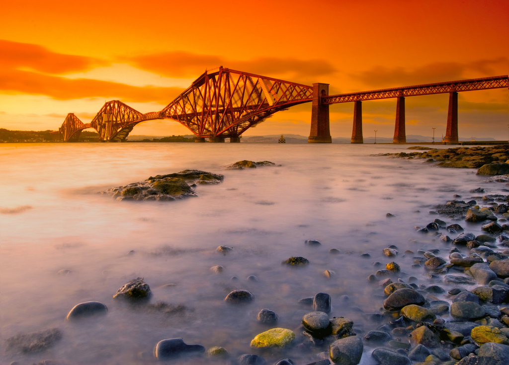 A late night view of the Forth Rail Bridge from the shore of South Queensferry